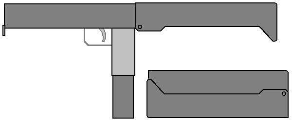 The Ares FMG (Folding subMachine Gun) designed by Eugene Stoner while at ARES Incorporated. A folded FMG is shown in the lower right corner.